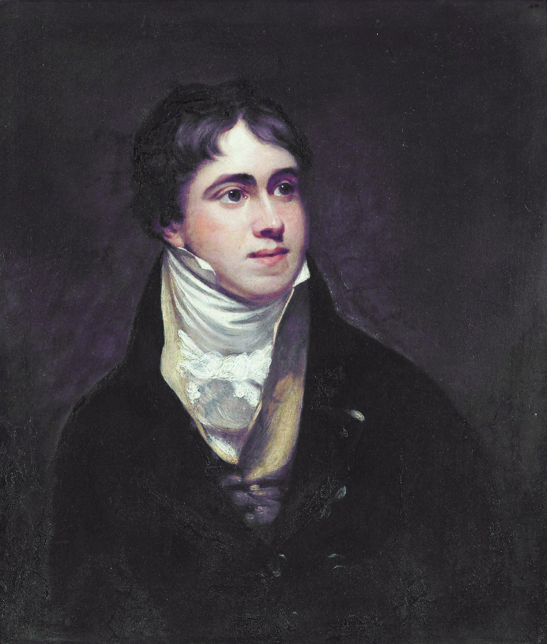 Edward Gambier (1794-1879) oil on canvas 76.3 x 62.8 cm before 1814